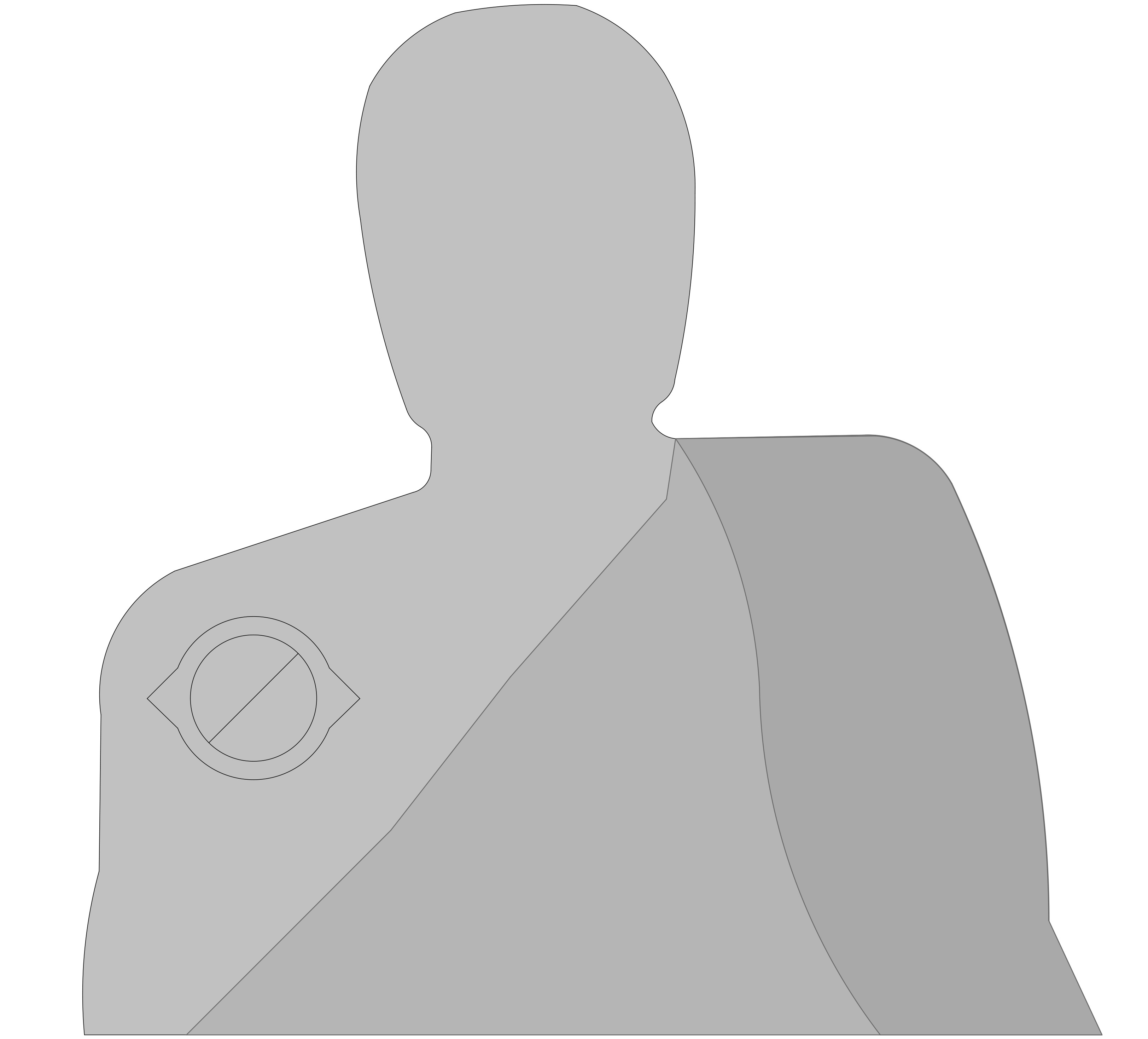 Togbui-adja Ayi